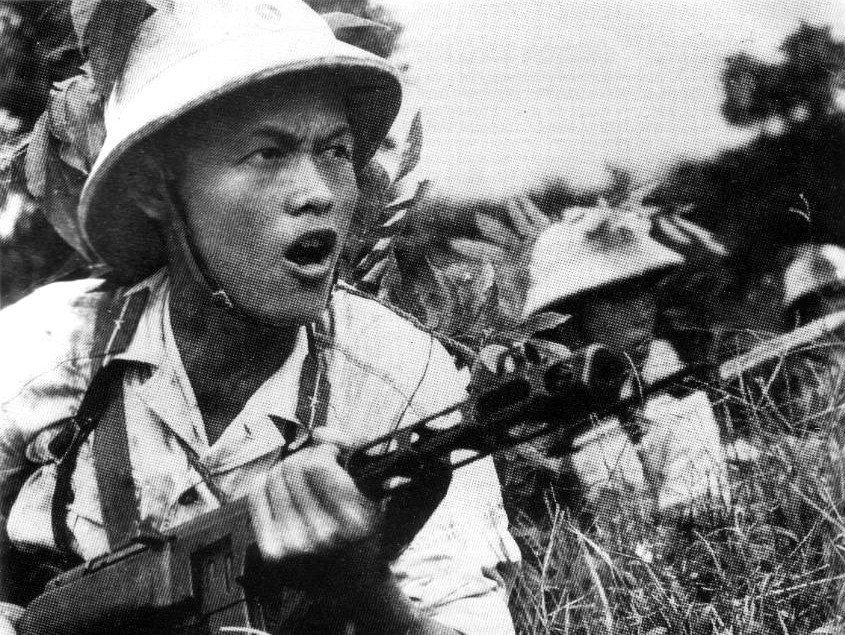 PAVN troops, circa 1966 US Army, Command and General Staff College, Combined Arms Research Library, Center for Military History: Vietnam Studies, (DEPARTMENT OF THE ARMY, WASHINGTON, D. C., 1989)